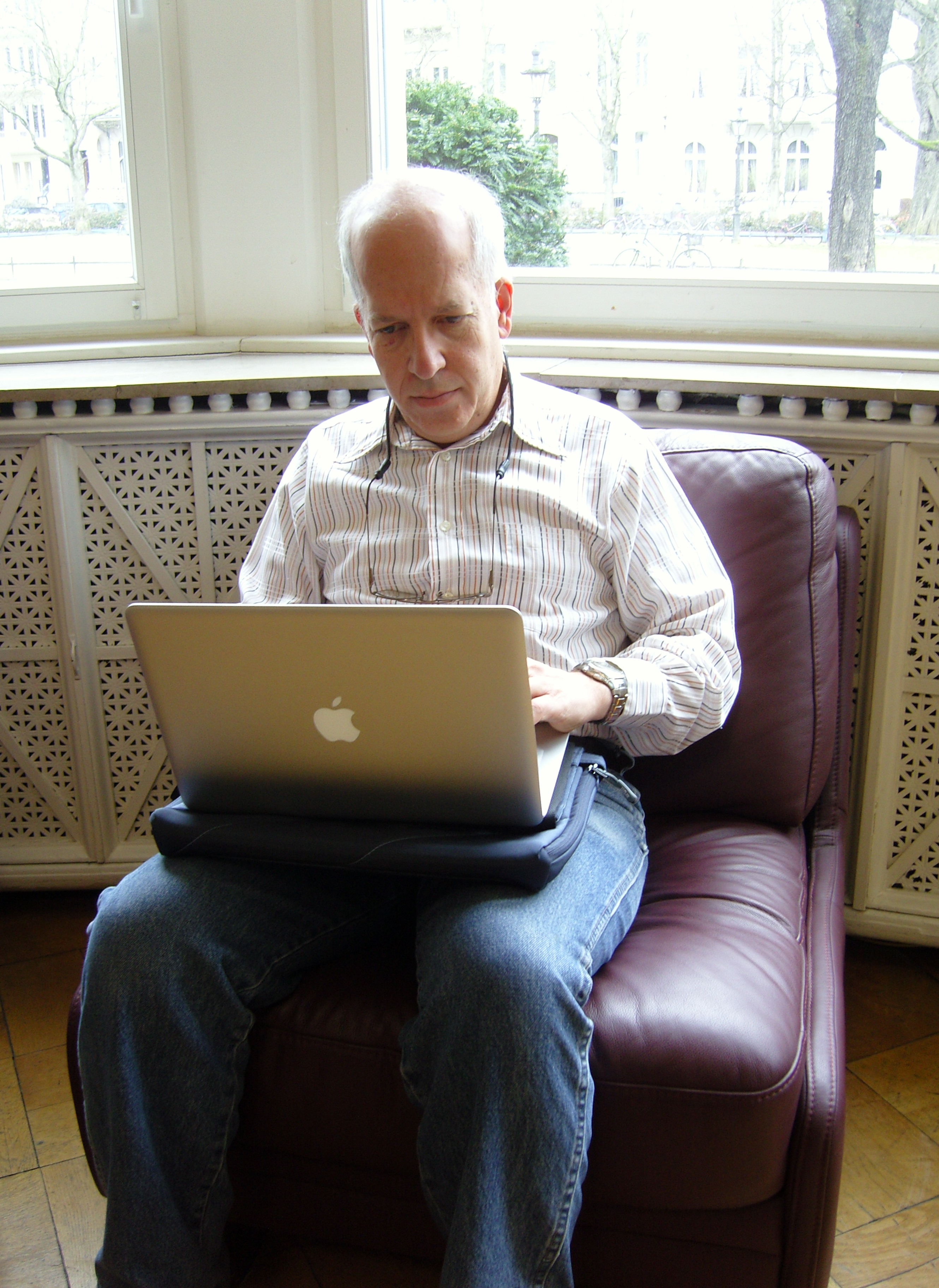 Karl Rubin at the Hausdorff Research Institute for Mathematics in Bonn, Germany